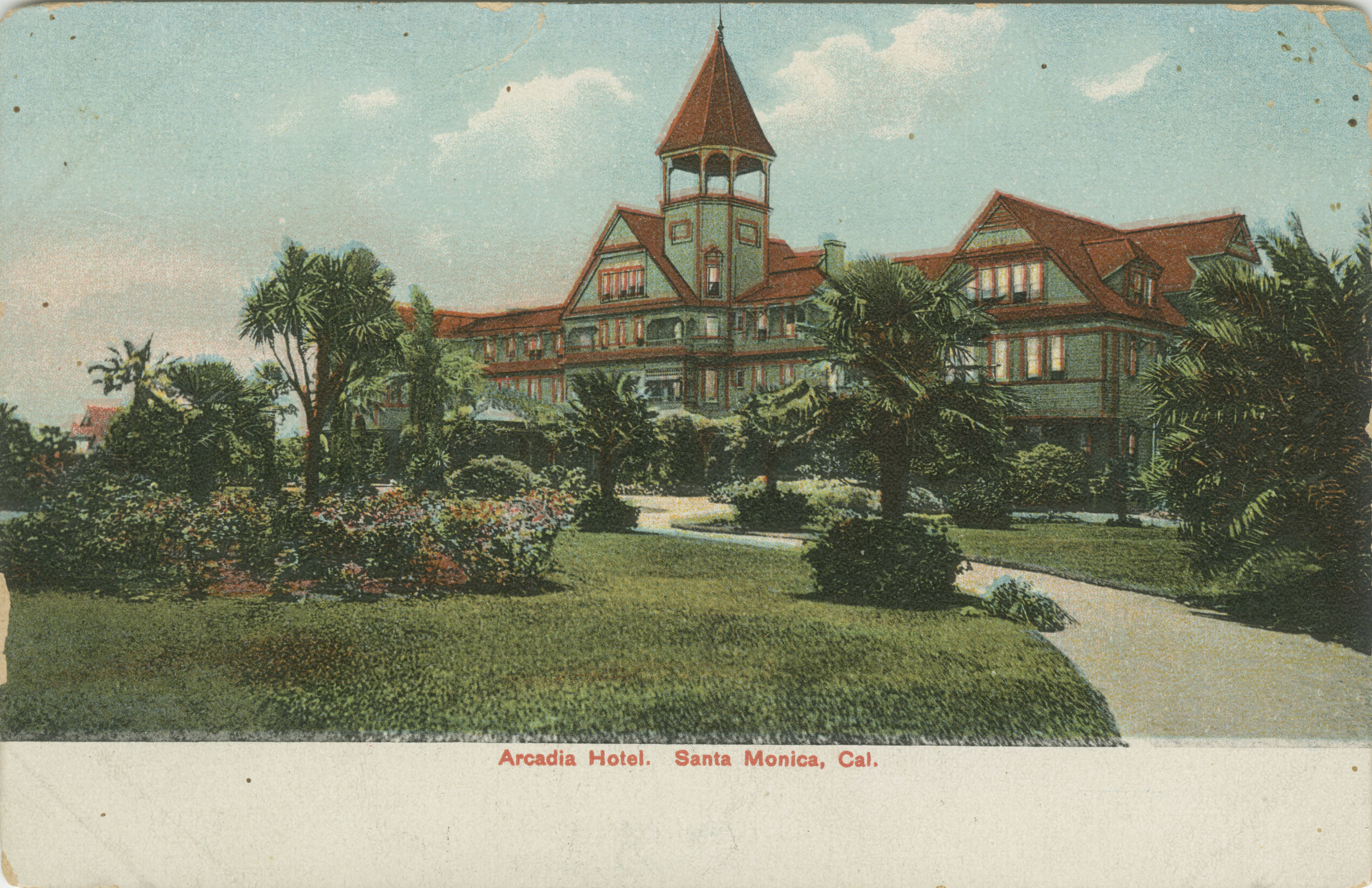 View of the Arcadia Hotel in Santa Monica, with gardens and a lawn in the foreground. Physical Description: 1 postcard : Color ; 9 x 14 cm. Historical Background: The Arcadia Hotel opened for business in 1887 and was located on Ocean Avenue between Railroad Avenue (later known as Colorado Avenue) and Front (later known as Pico Boulevard)" The Arcadia was the largest structure in Santa Monica at the time of its construction. The 125-room hotel was owned by J.W. Scott, the proprietor of the city's first hotel, the Santa Monica Hotel. The hotel was named for Arcadia Bandini de Baker, the wife of Santa Monica cofounder Colonel R. S. Baker. The Arcadia Hotel was a landmark, hailed as one of the finest hotels in Southern California in its day. However, like many hotels in the area, the Arcadia hotel was forced to close in times of slow business; the hotel closed for one year from 1888-1889, and permanently in 1906 when the building boom subsided. In 1907, there was a failed attempt to convert the hotel into a private school for the California Military Academy, but the property stood abandoned until it was demolished in 1909 to make room for beach improvements, homes, and hotels.